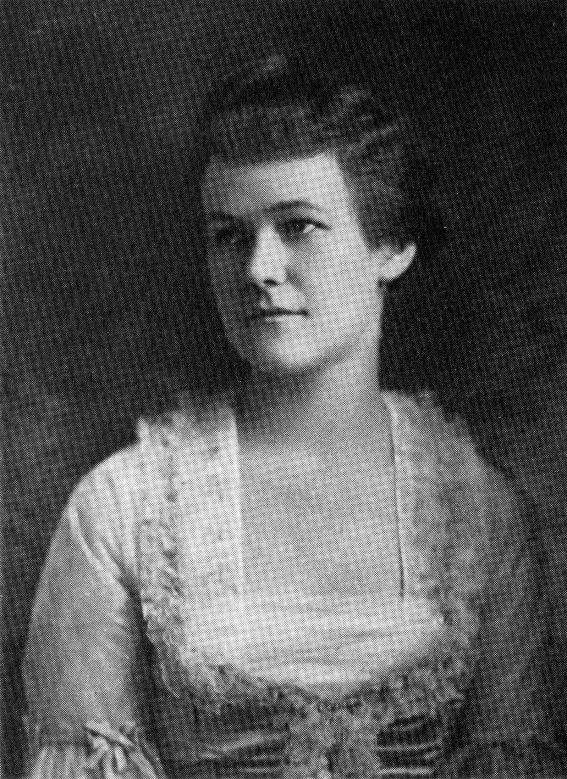 Photograph of Charlotte Winslow Lowell, mother of the poet, Robert Lowell